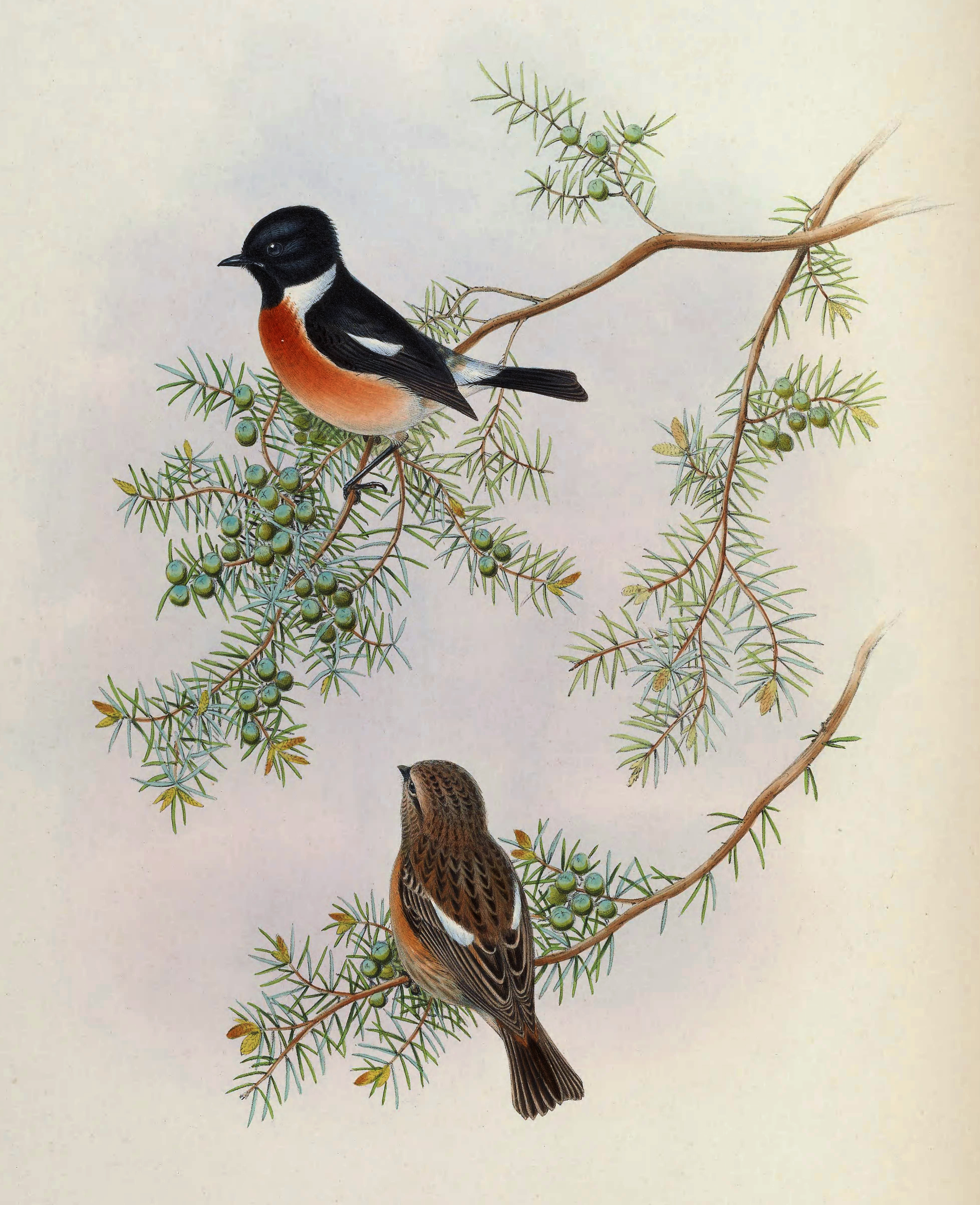 Saxicola maurus indicus, on Juniperus formosana. From The Birds of Asia (John Gould), Volume 4.